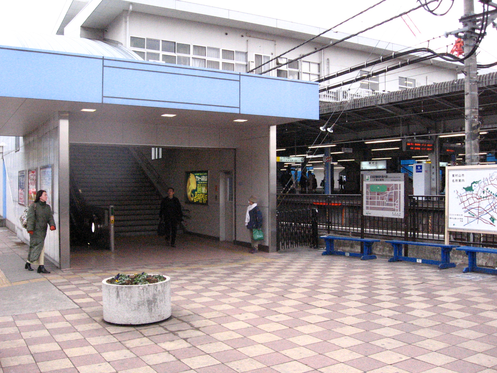 Seibu Shinjuku Line Higashimurayama Station.